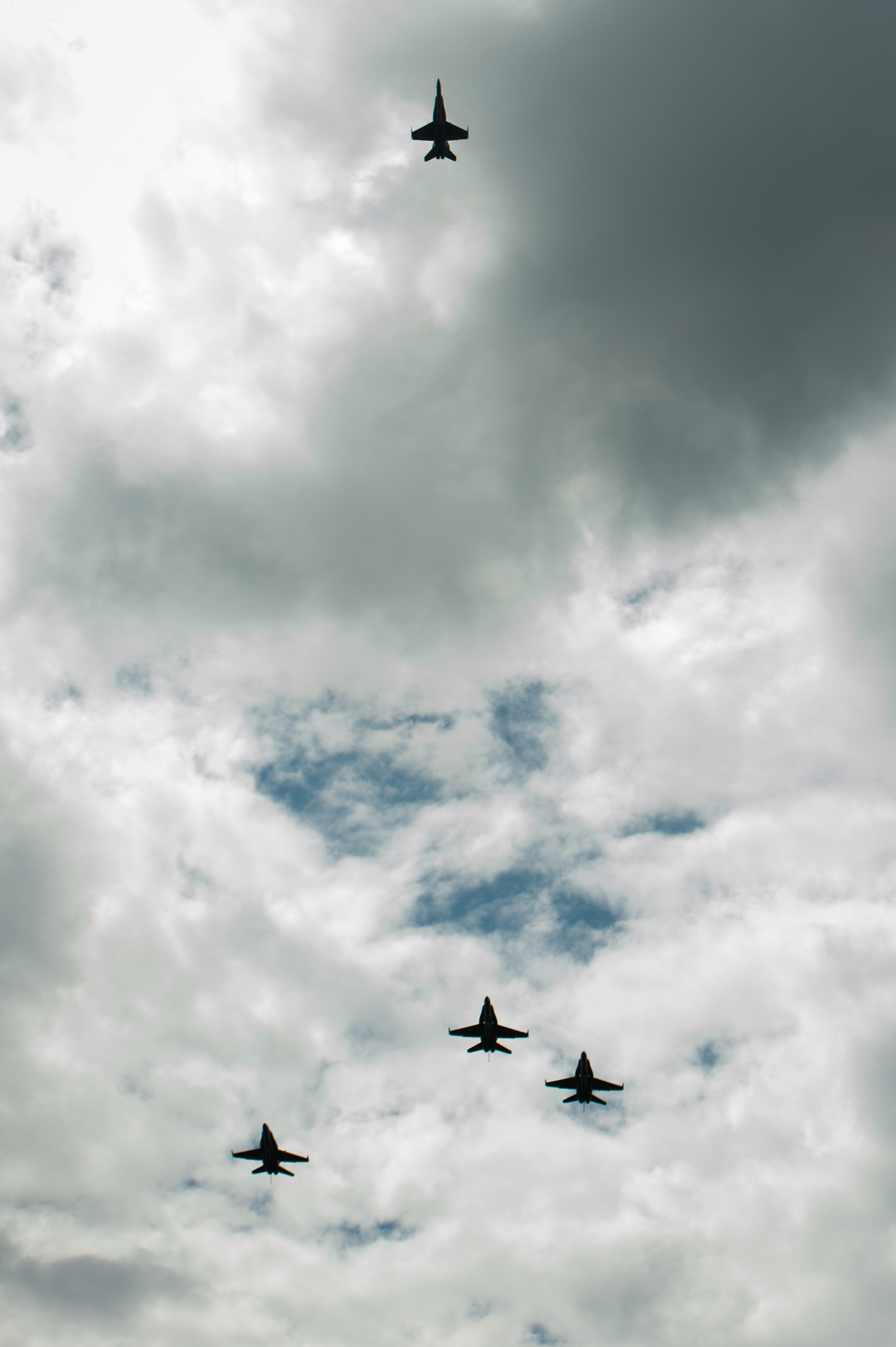 U.S. Navy F/A-18 jets from Strike Fighter Squadron (VFA) 106 and Strike Fighter Squadron (VFA) 34, from Naval Air Station Oceana (Va.) fly in a missing man formation over the Camargo Club in Indian Hill near Cincinnati following a memorial service celebrating the life of Neil Armstrong. Armstrong, the first man to walk on the moon during the 1969 Apollo 11 mission, died on Saturday, 25 August. He was 82.